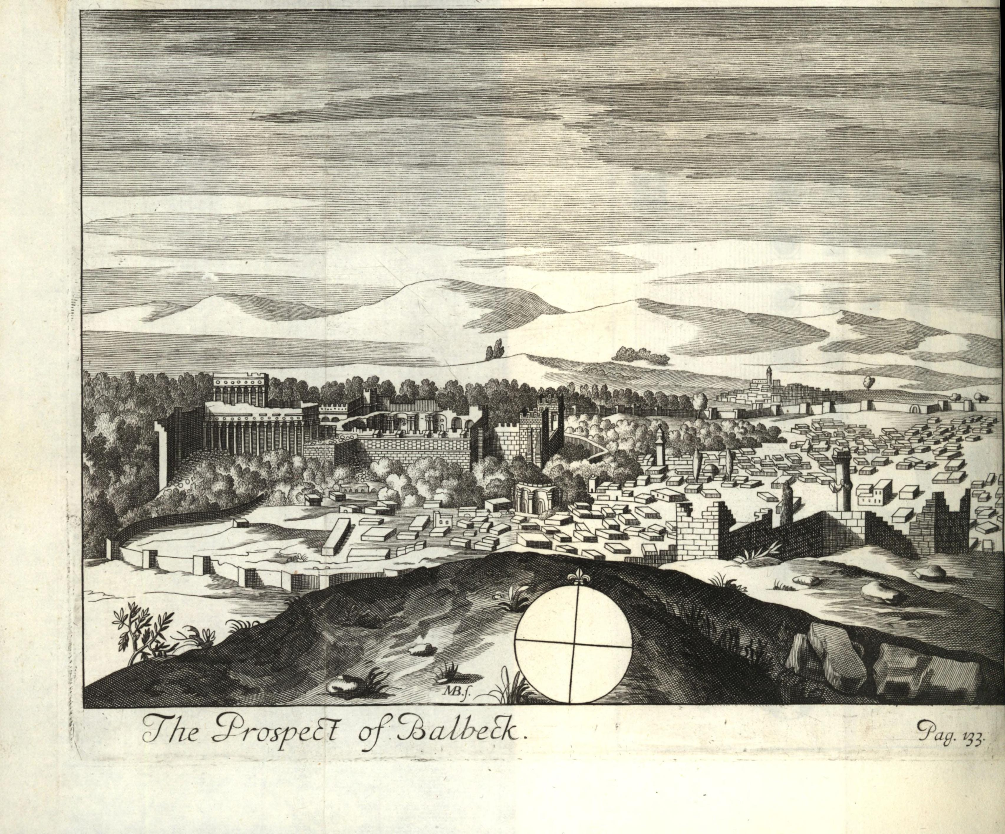 The Prospect of Baalbek, facing north